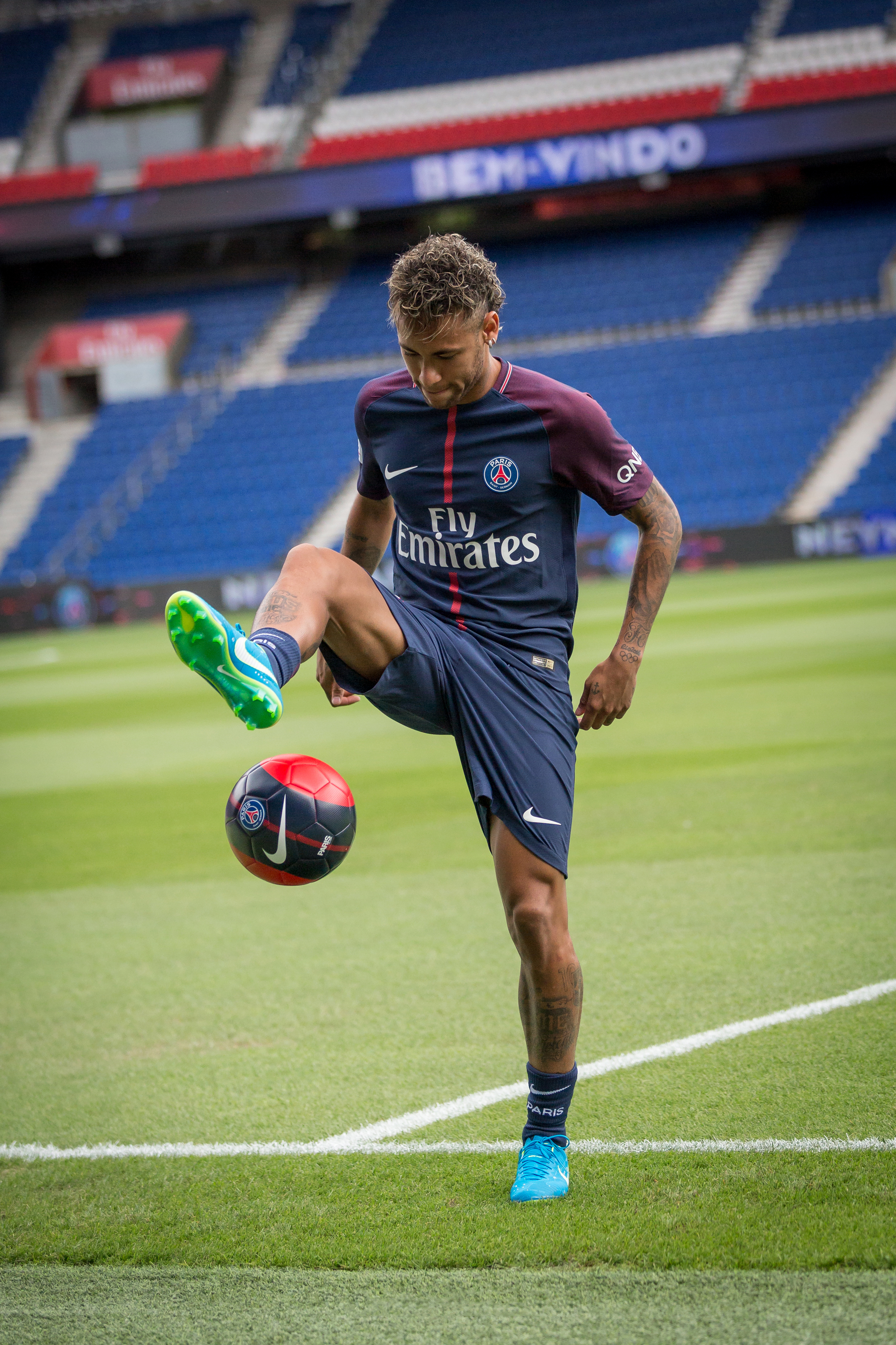 Neymar Jr official presentation for Paris Saint-Germain, 4 August 2017.